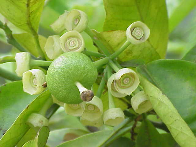 Species: Citrus maxima Family: Rutaceae Image No. 3